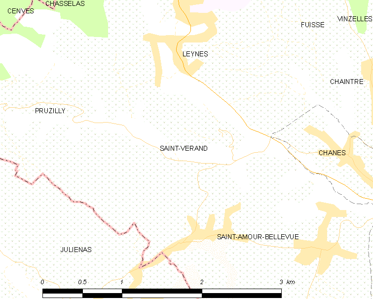 Map of French municipality